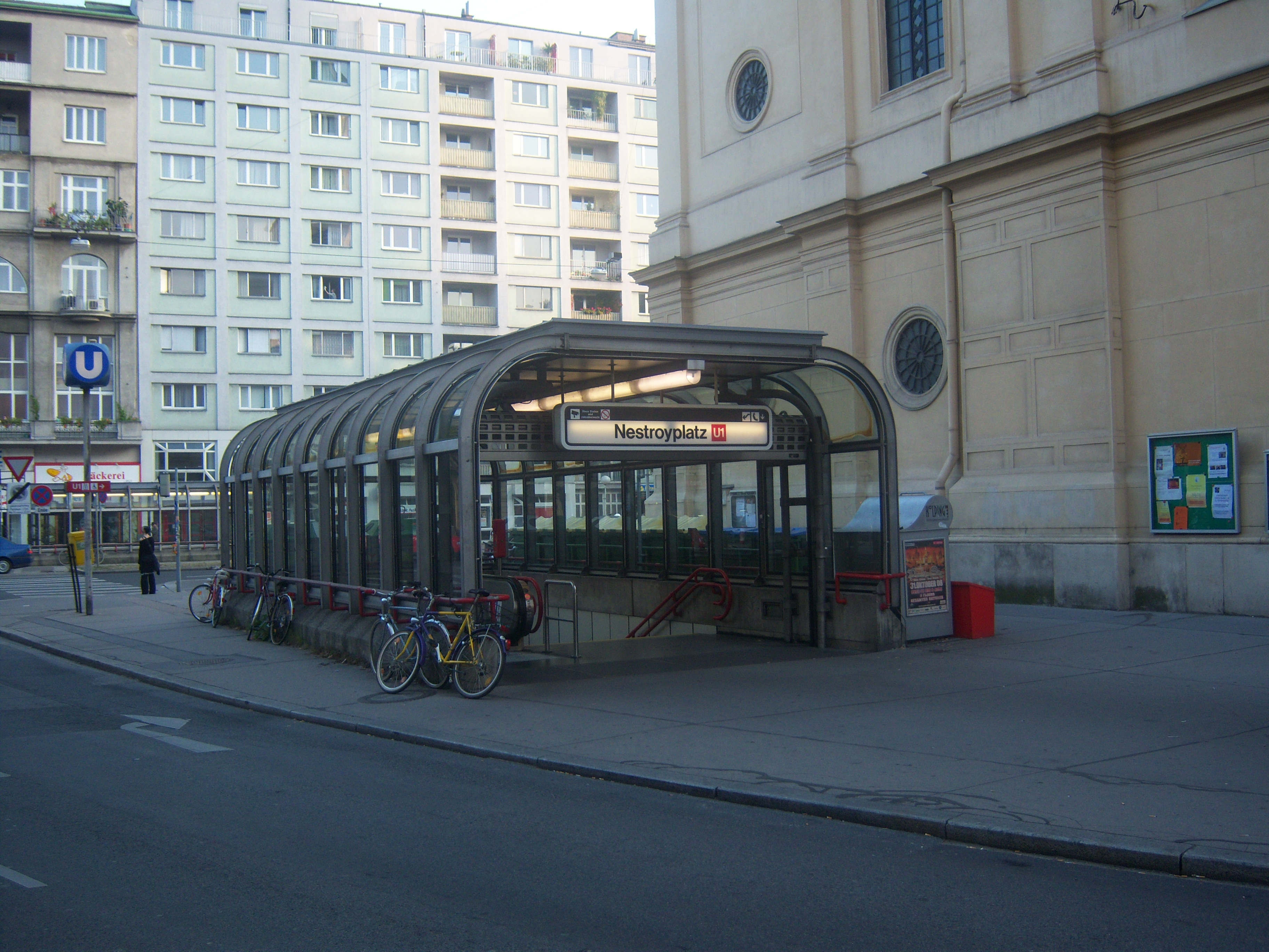 U1-Station Nestroyplatz